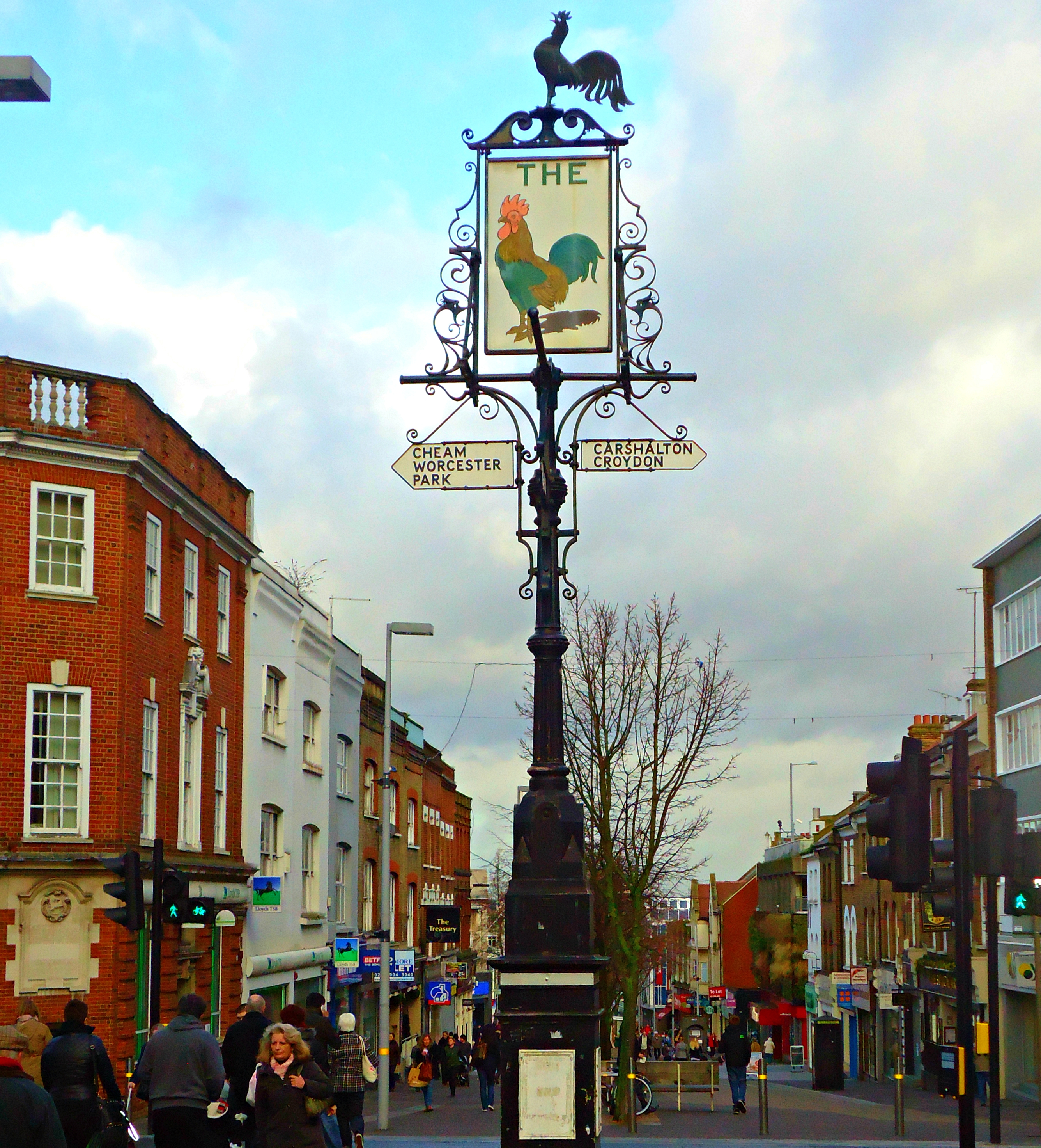 Photograph taken in the town centre area of Sutton, a medium sized town within Greater London, on the edge of Surrey.